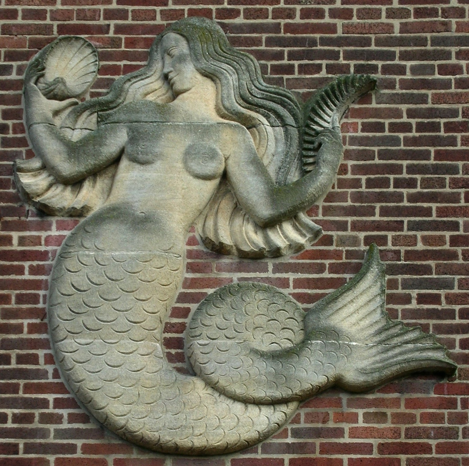 Stone mermaid outside the Guild of Students, University of Birmingham, England. By William Bloye. Photographed 21 February 2007. Oosoom 13:04, 22 February 2007 (UTC)